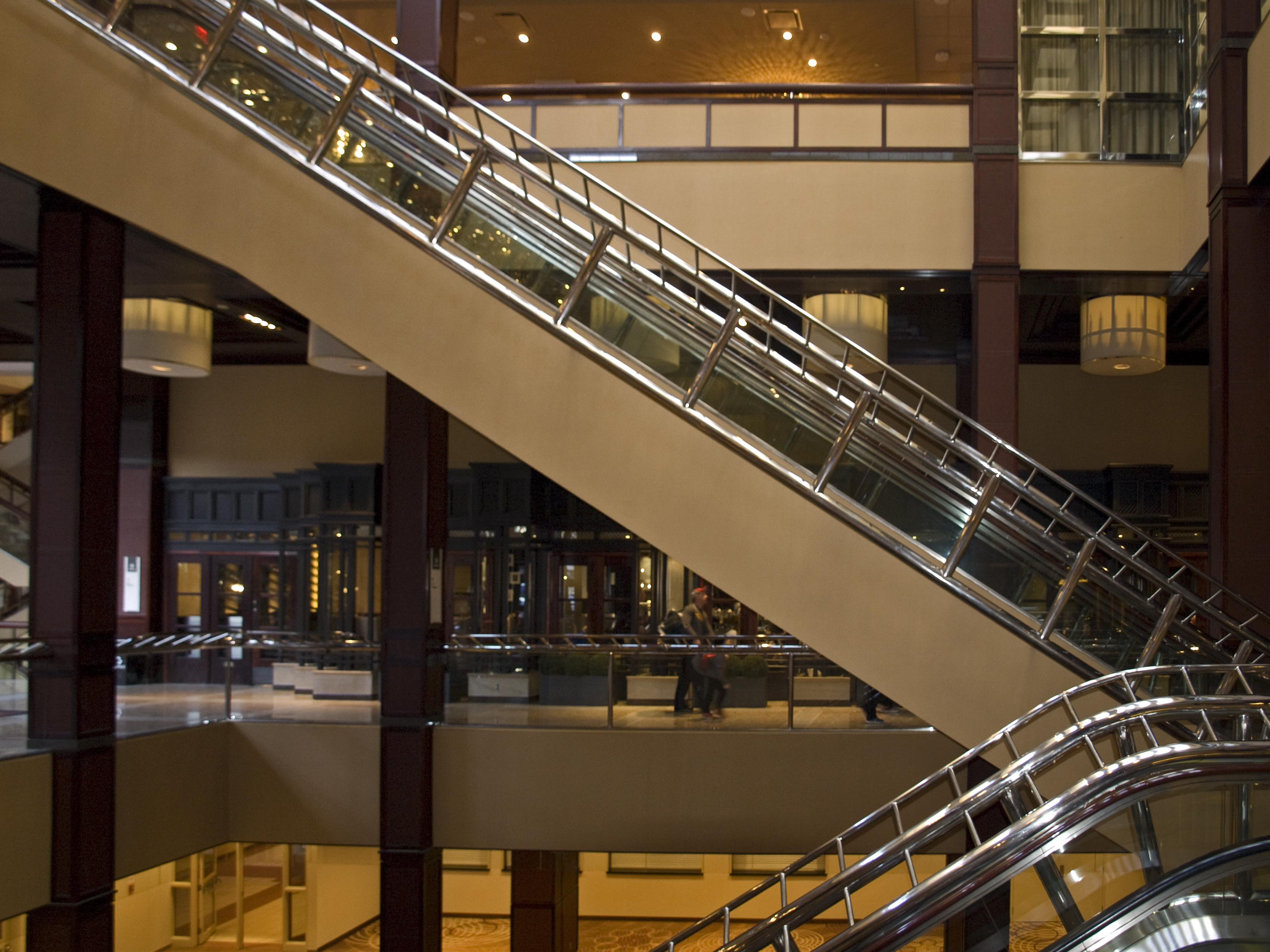 Lobby of the Sheraton Centre Hotel Toronto serves as one of the exit points for the PATH network. The entrance to the network is bottom left.